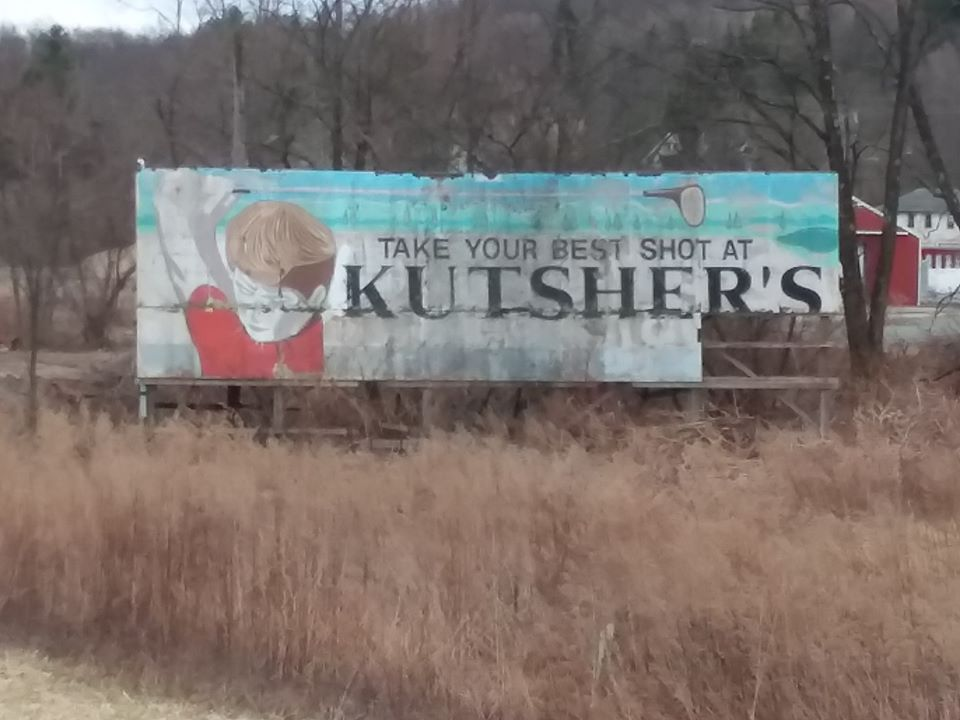 Photo of a billboard for Kutsher's Hotel, Thompson, New York, USA. Billboard location is near Exit 100 on NY 17E, outside of Liberty, New York, USA.